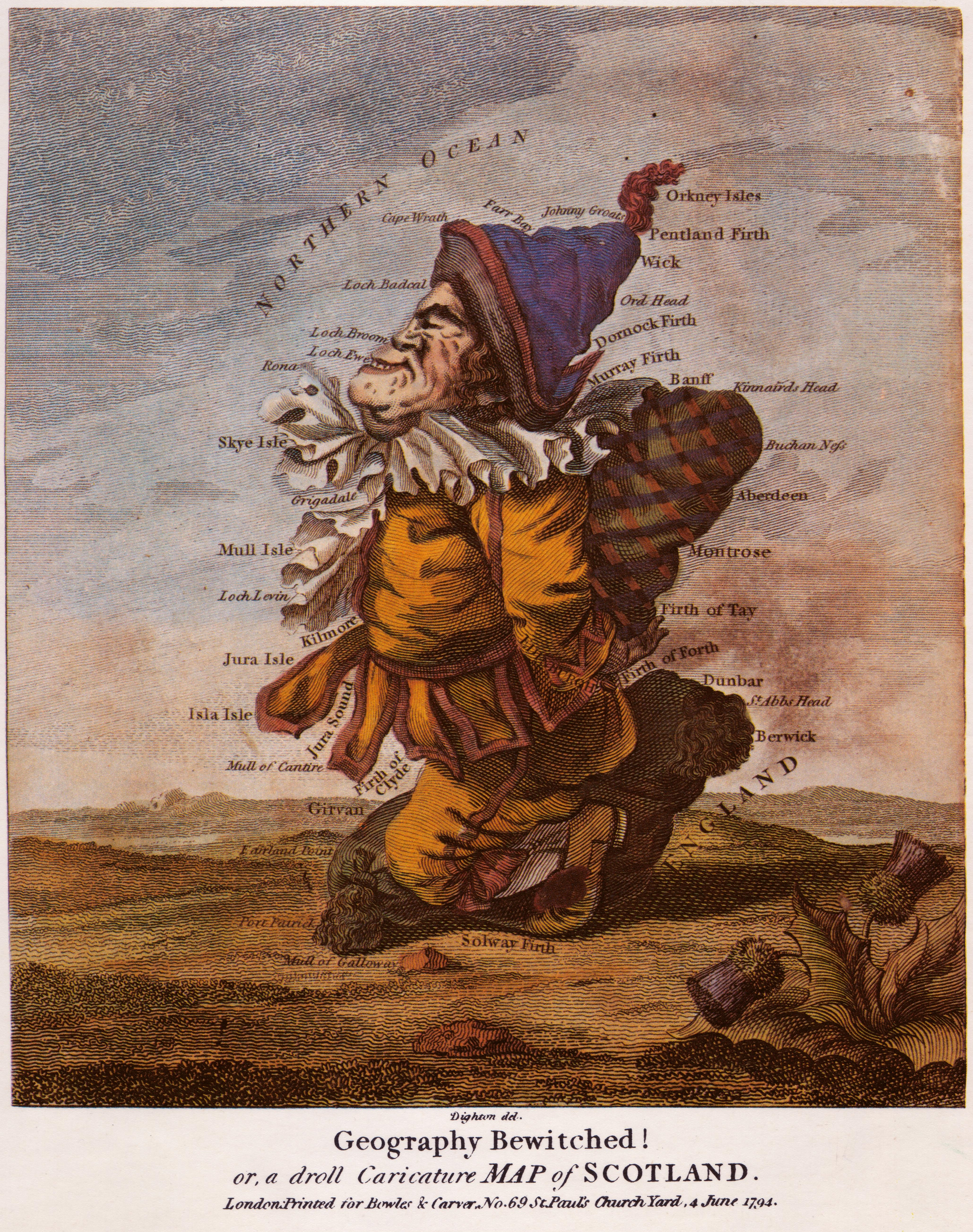 Geography Bewitched! or, a droll Caricature MAP of SCOTLAND London: Printed for Bowles & Carver, No. 69 St Paul's Church Yard, 4 June 1794. Art by Robert Dighton, printed in 1794[1]